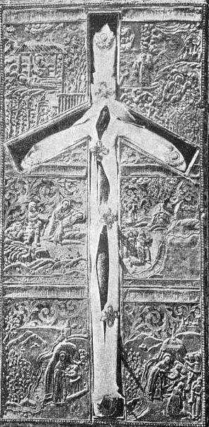 St. Nino's Cross from the Sioni cathedral, Tbilisi. An illustration from Letopis' Gruzii, edited by B. Esadze, 1913.